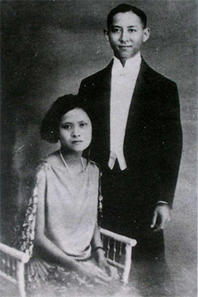 Prince Mahidol Adulyadej, the Prince of Songkla Nagarindra with Mom Sangwal Mahidol na Ayudhya on their marriage